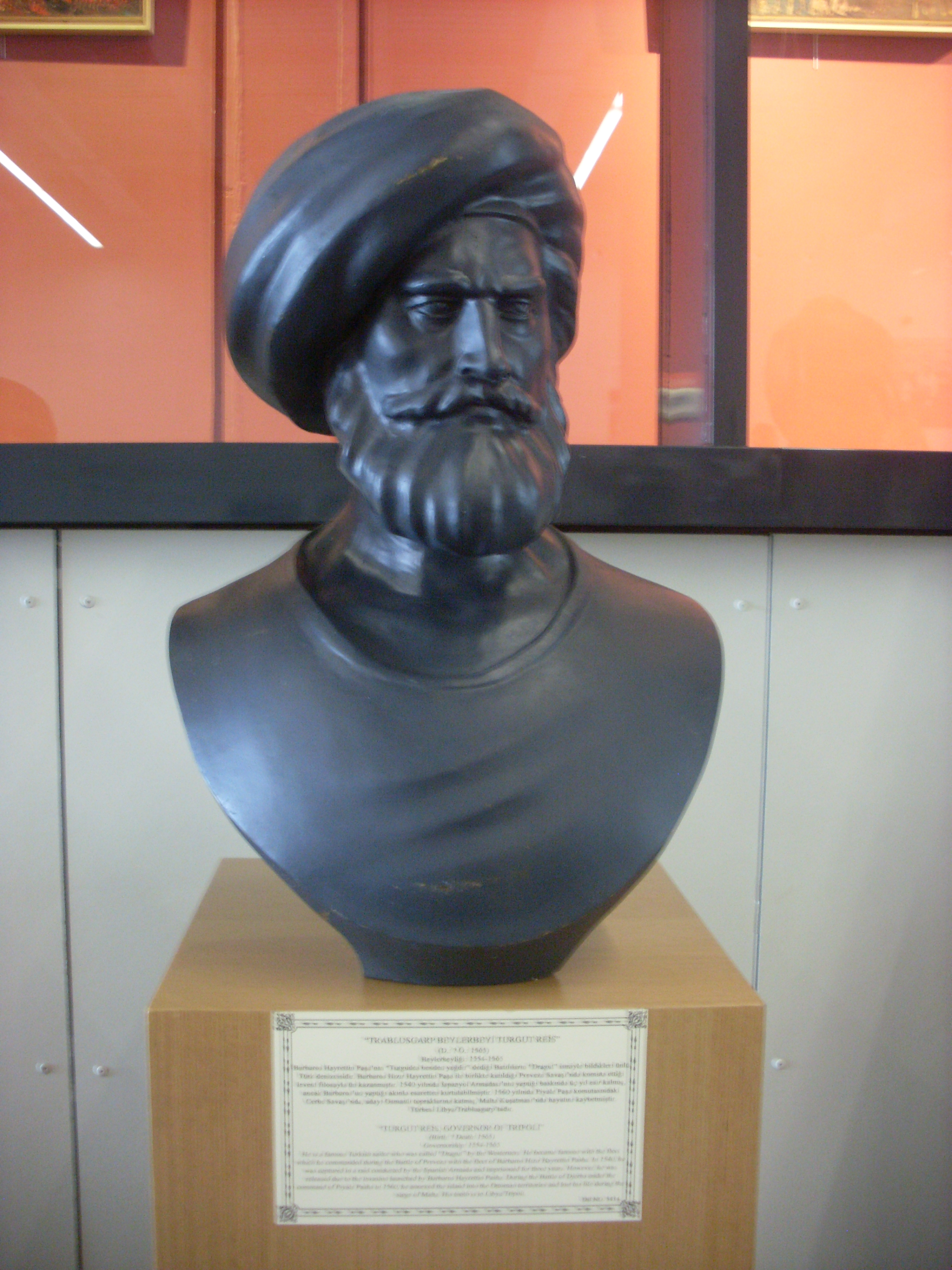 Turgut Reis bust at Istanbul Naval Museum